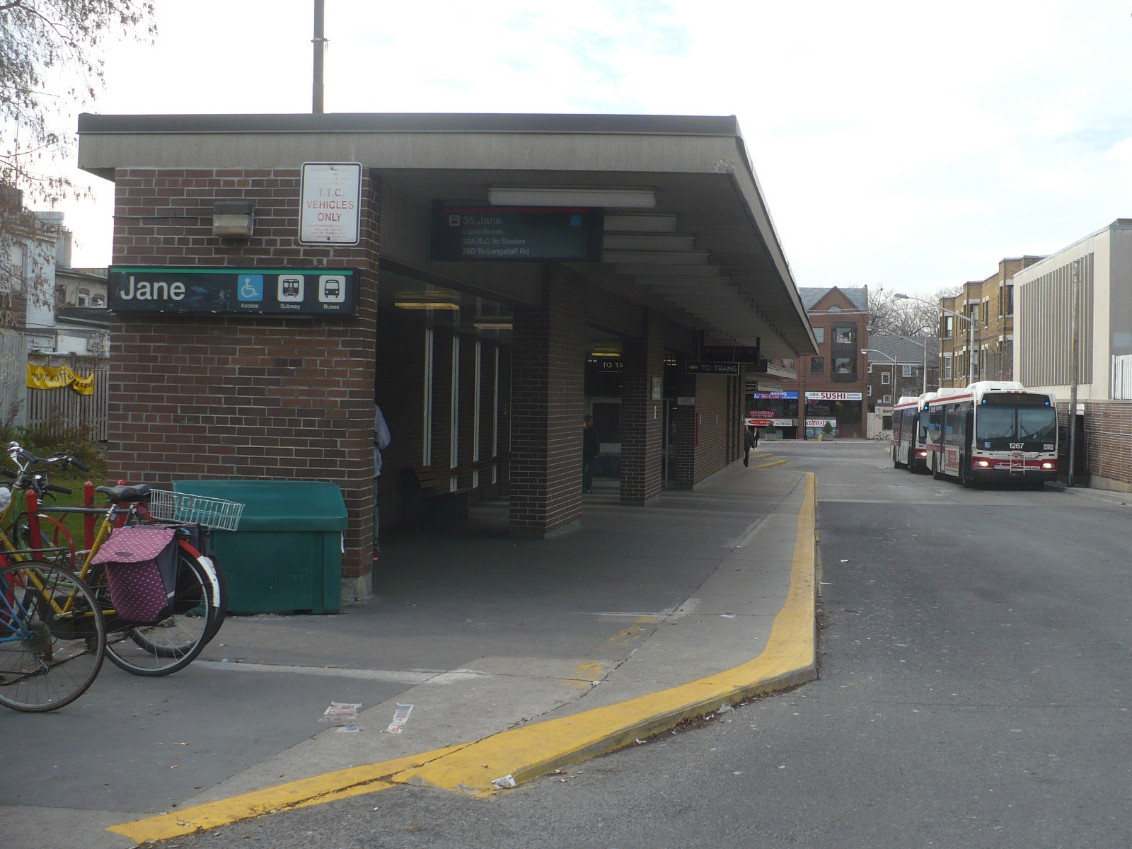 Jane subway station entrance from Armadale